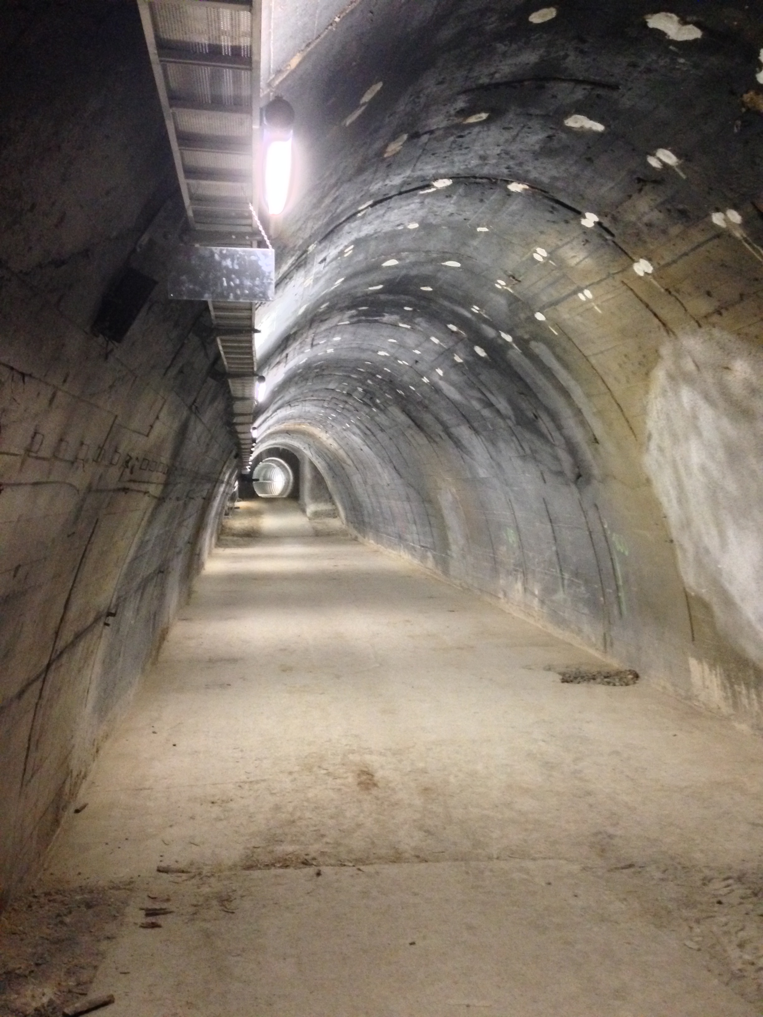 Inside the adit of B8 Bergkristall